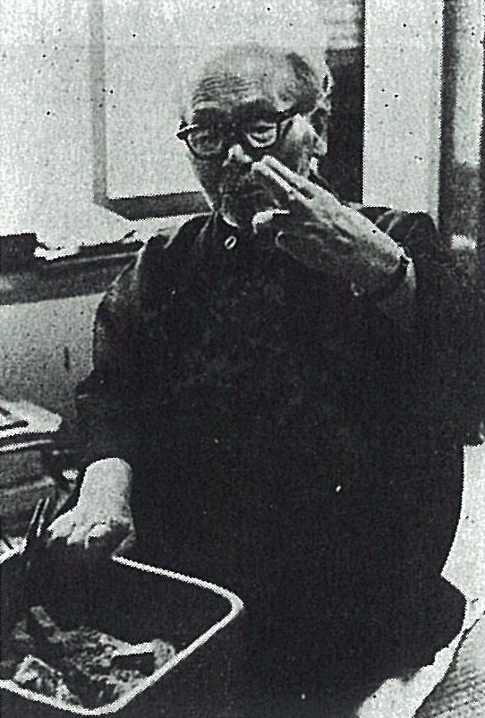 Denchu Hiragushi was a Japanese sculptor.